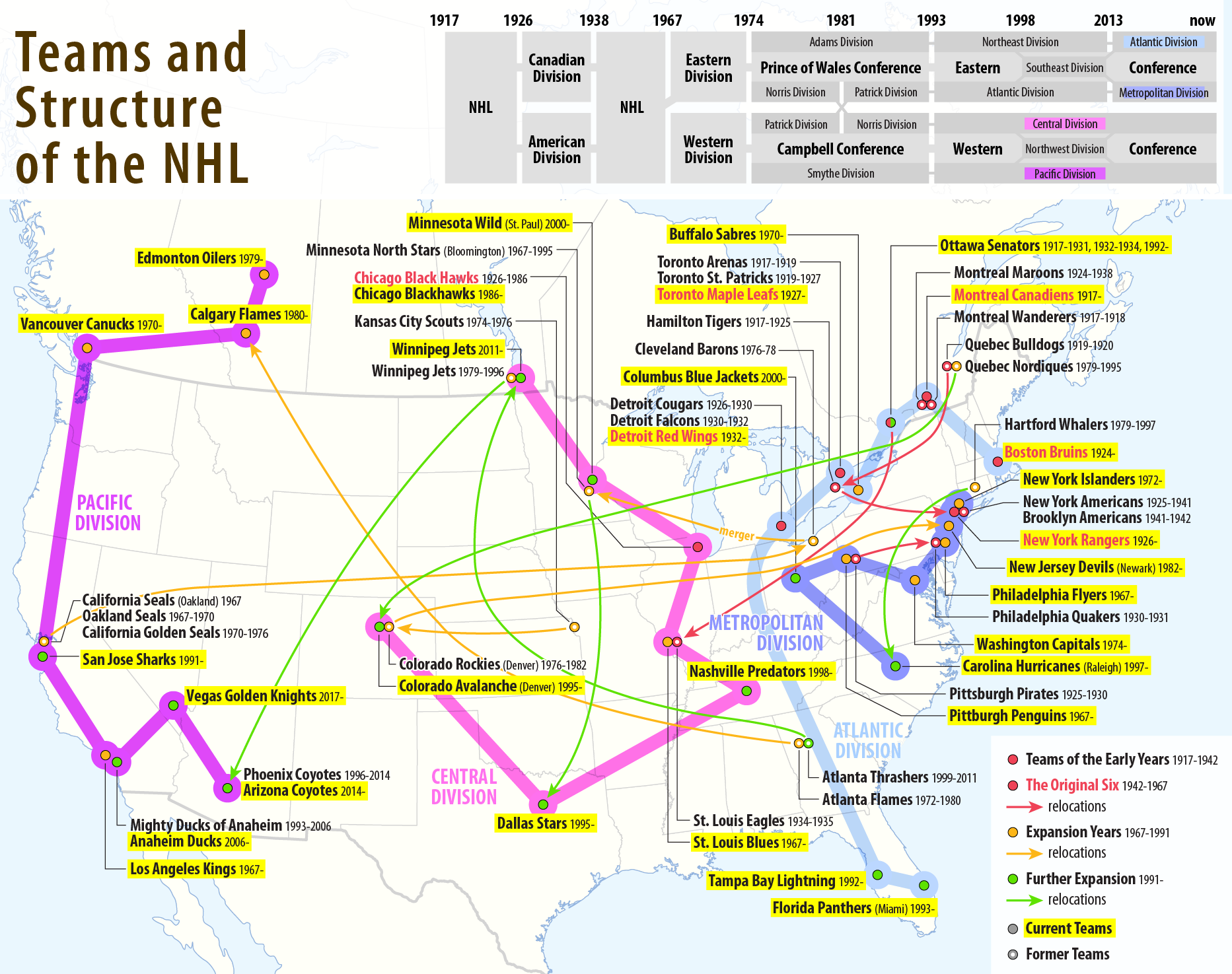 Teams and Structure of the National Hockey League (NHL)